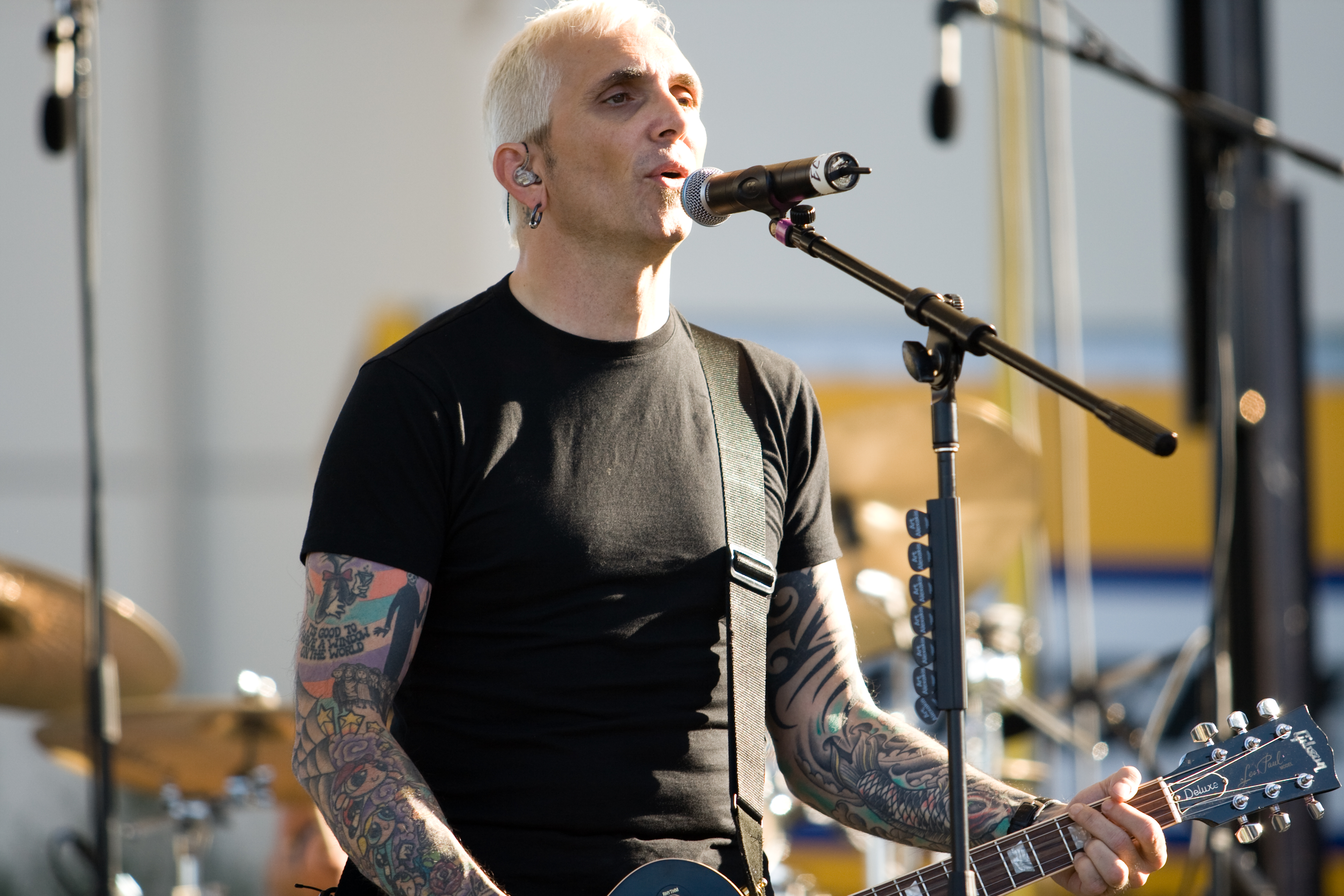 Art Alexakis performing live at Emory University on September 29th, 2007